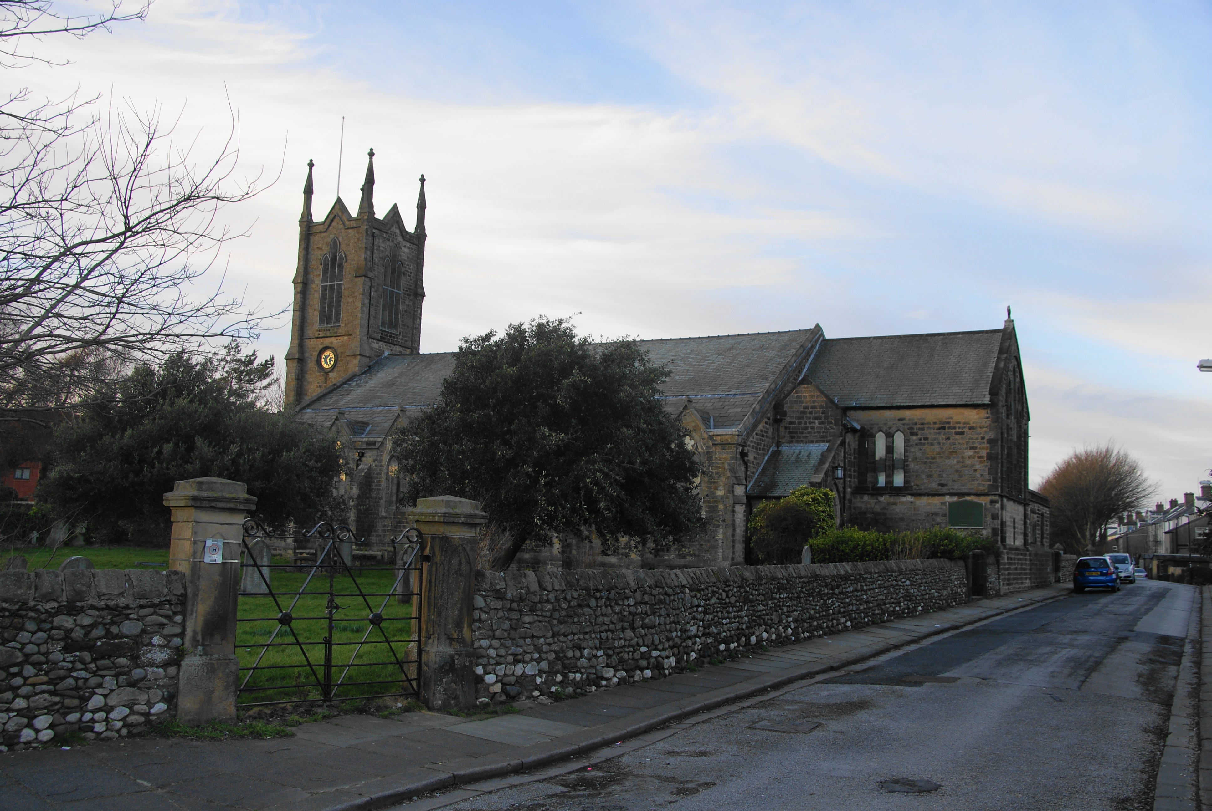 Photograph of Holy Trinity Church, Morecambe, Lancashire